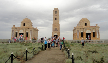 Есет-Дәрібай кесенесі